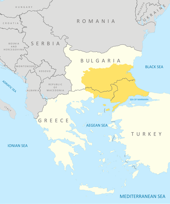 Thrace and present-day state borderlines